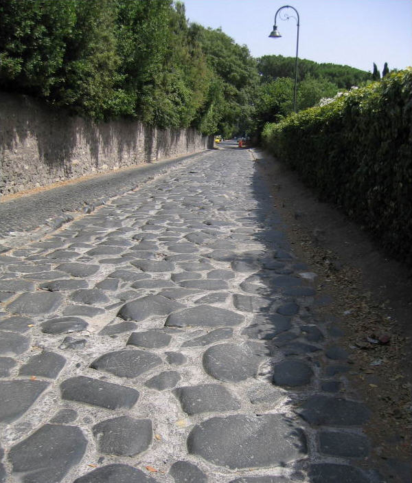 Remains of Via Appia, near Rome, Italy.